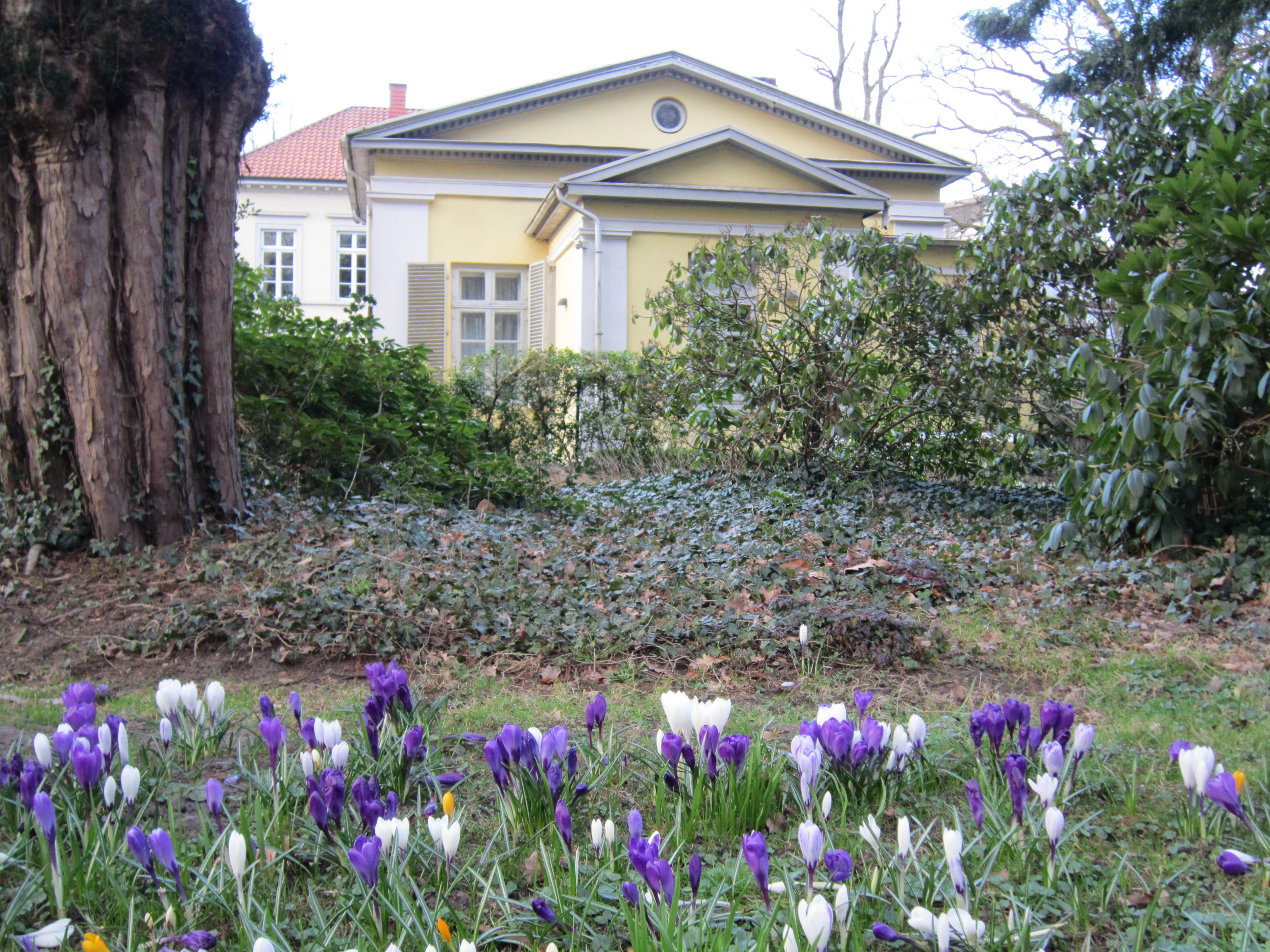 Gate house of the Oldenburg Castle Garden